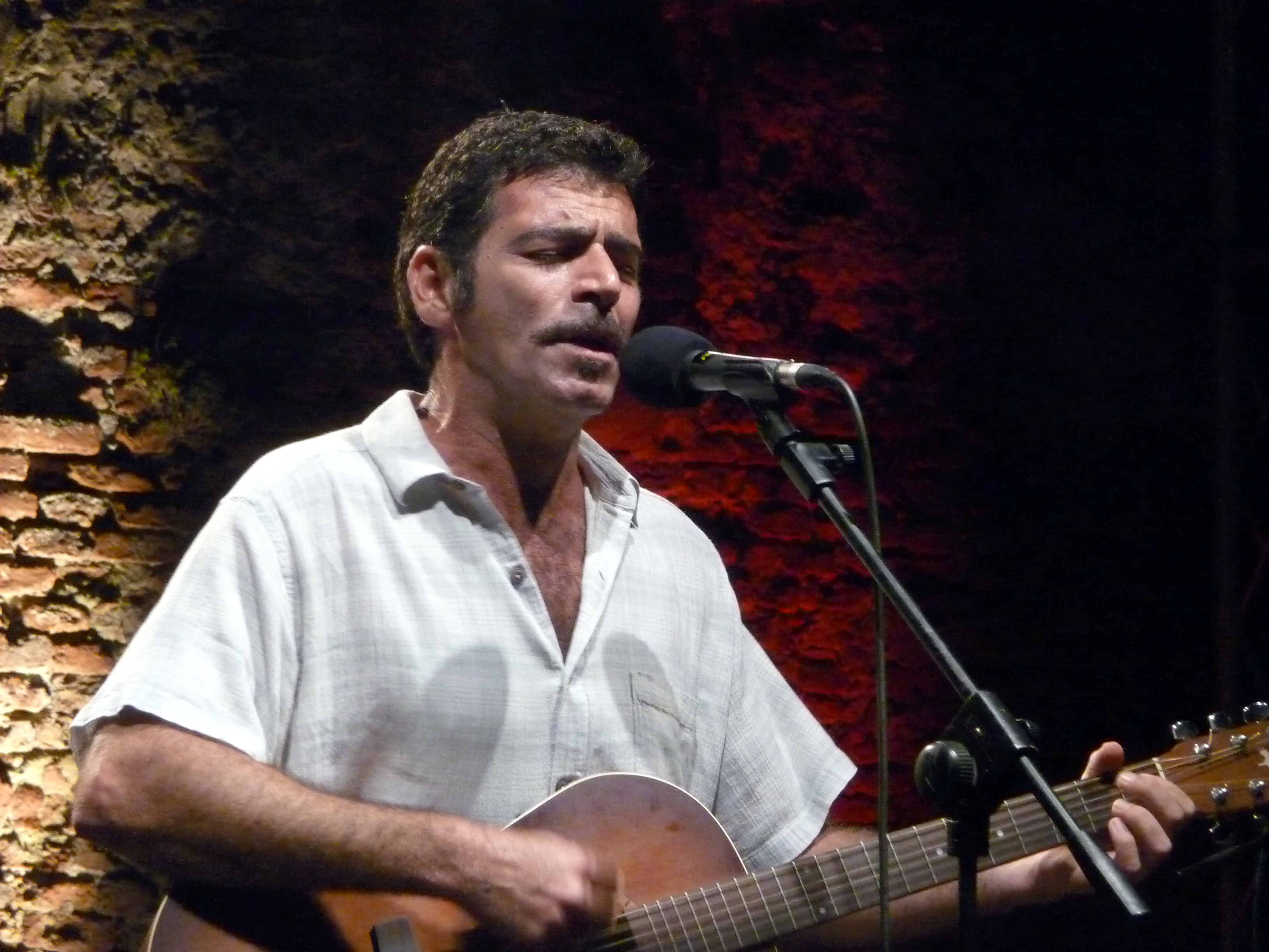 Singer Roberto Rondelli, concert in Livorno